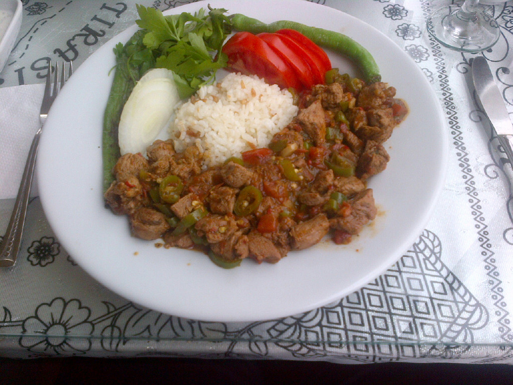 Çoban kavurma (lamb) and "pilav" (Turkish pilaf) in Ankara.